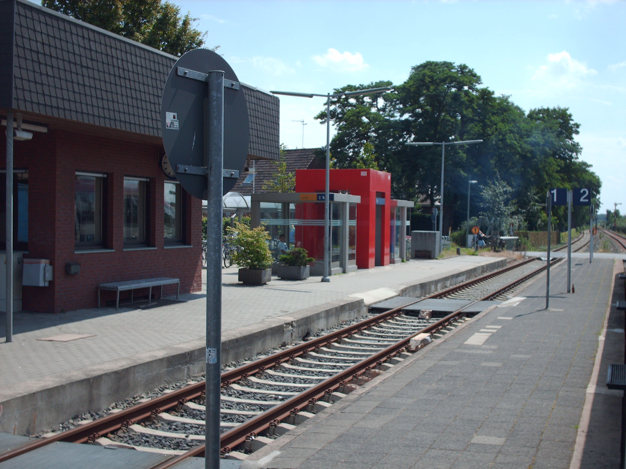 Epe (Westfalen) station, Gronau (Westf.), Germany check usage